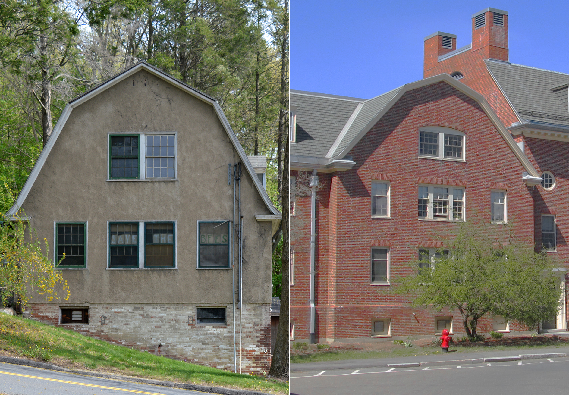 Comparison of the Gambrel roof design seen on the Apiary and that on Butterfield House at the University of Massachusetts Amherst. The buildings were constructed roughly 30 years apart from one other and it is likely that Butterfield's architect, Louis Warren Ross, an alumnus of the institution, based his design on the Apiary, then the only other building in the vicinity of the dorm site. (Apiary on the left, Butterfield on the right.) Notice: Comparison rendered as single file due to image zooming/derivative limitations of Photomontage.